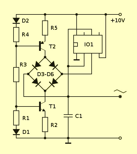 Gen 555